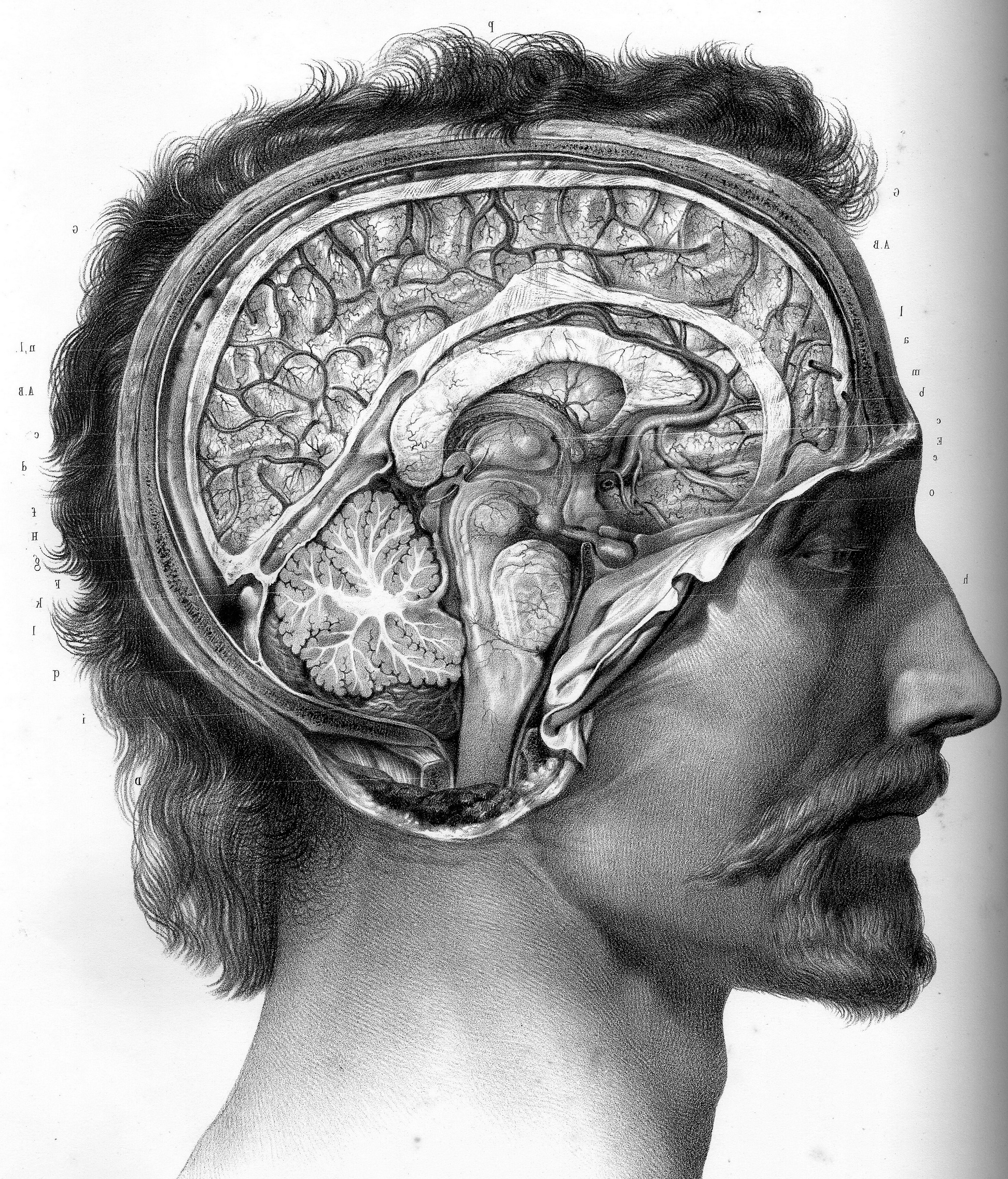 anatomical drawing : écroché :head : Charcot's cut